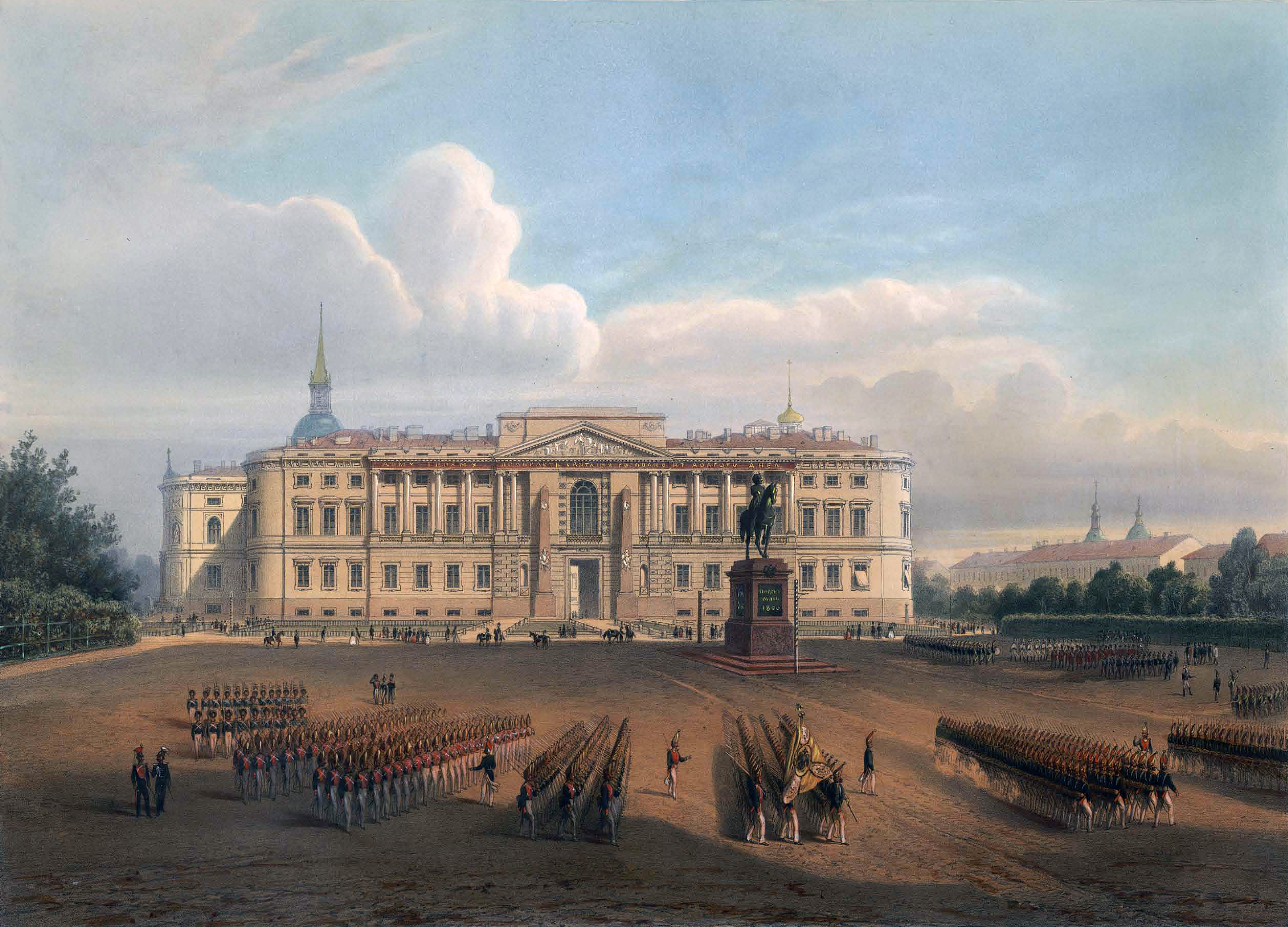 Saint Michael's Castle in St. Petersburg in the 19th century lithograph after a drawing by Charlemagne